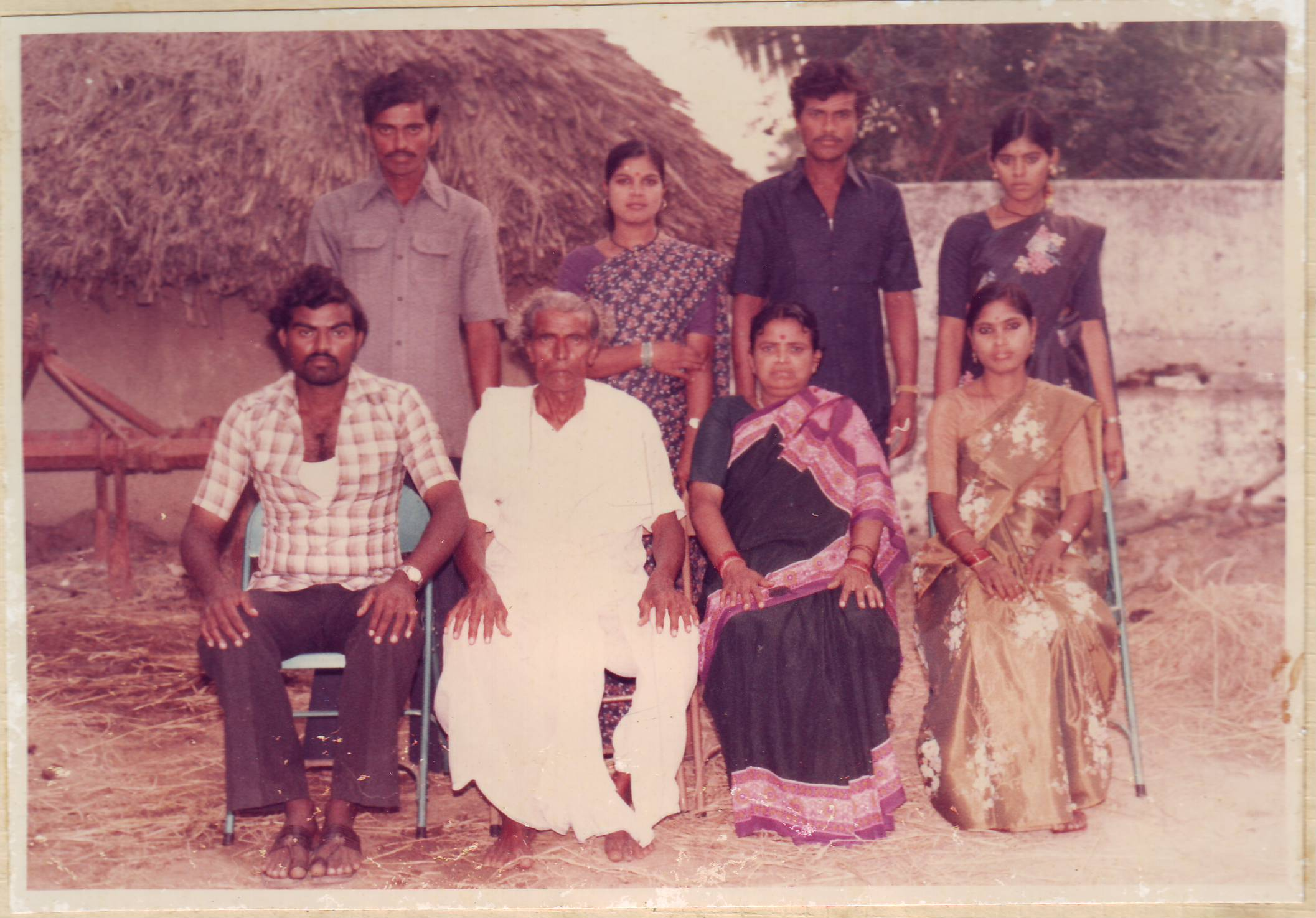 Seerla Basavaiah and his family